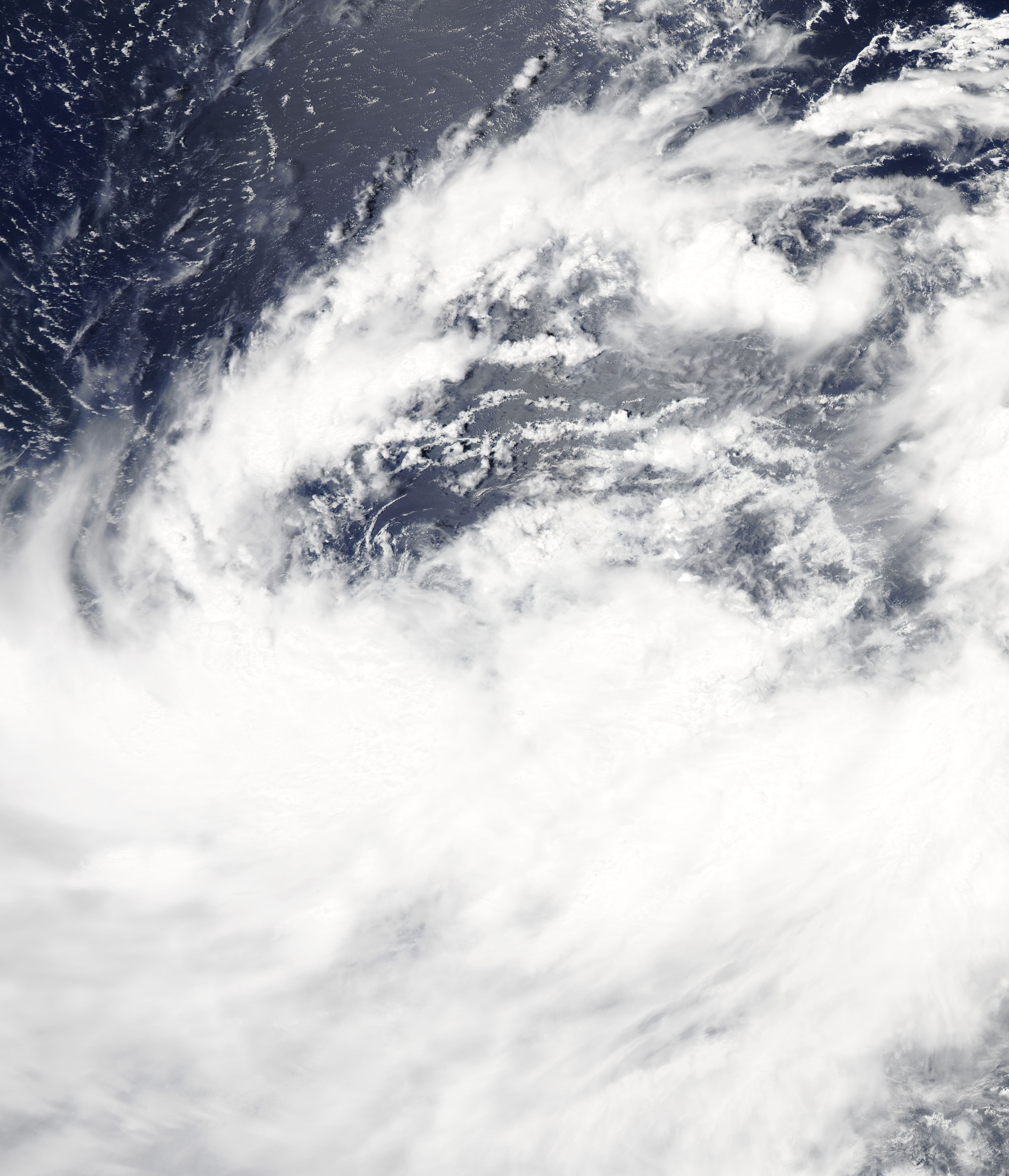 JMA Tropical Depression 11 (PAGASA TD Kiko) on August 3, 2009.